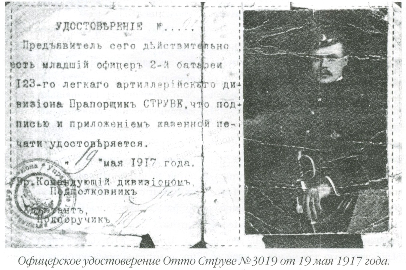 Officer ID of Otto Struve dated 19 May 1917